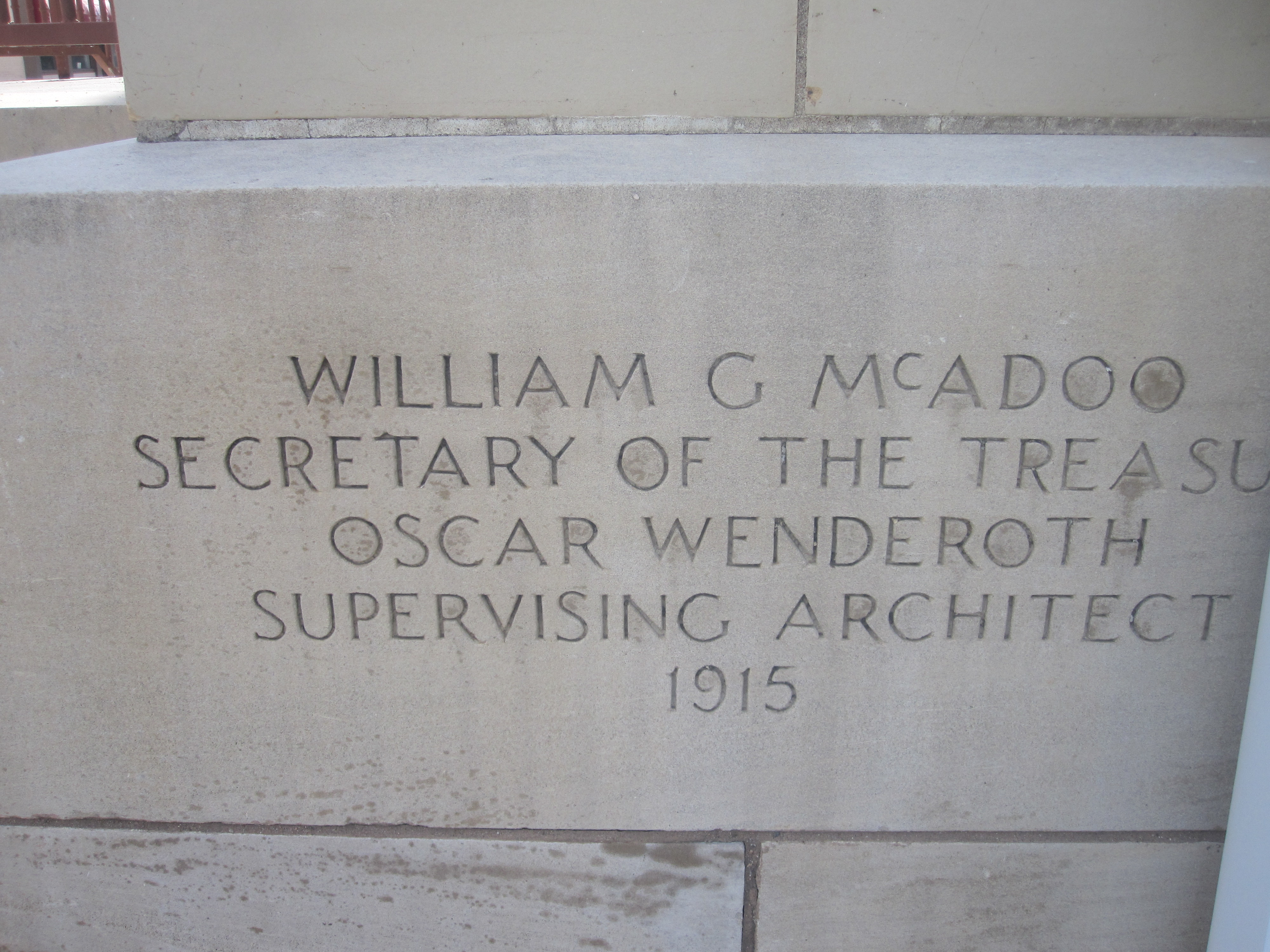 I took photo with Canon camera in La Junta, CO.